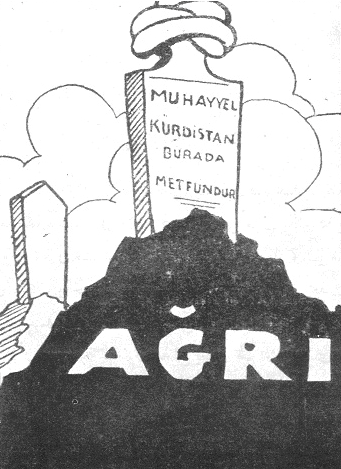 Ağrı, an imagined Kurdistan is buried here.